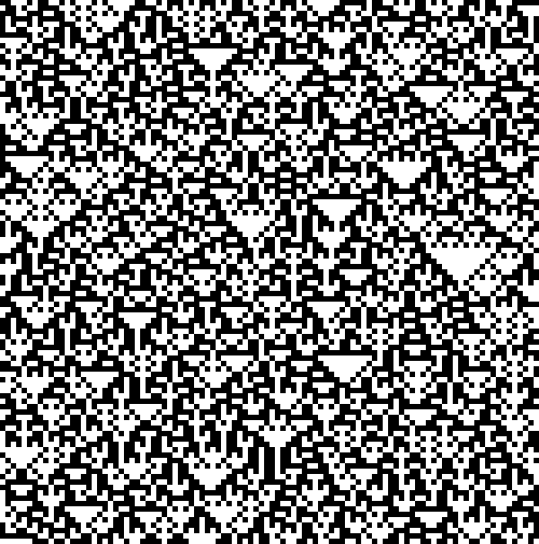 Time-space diagram of cellular automaton Rule 90 on a 100-cell random input. Expanded 6x from File:Rule90rand.png to allow it to appear at upscaled dimensions.